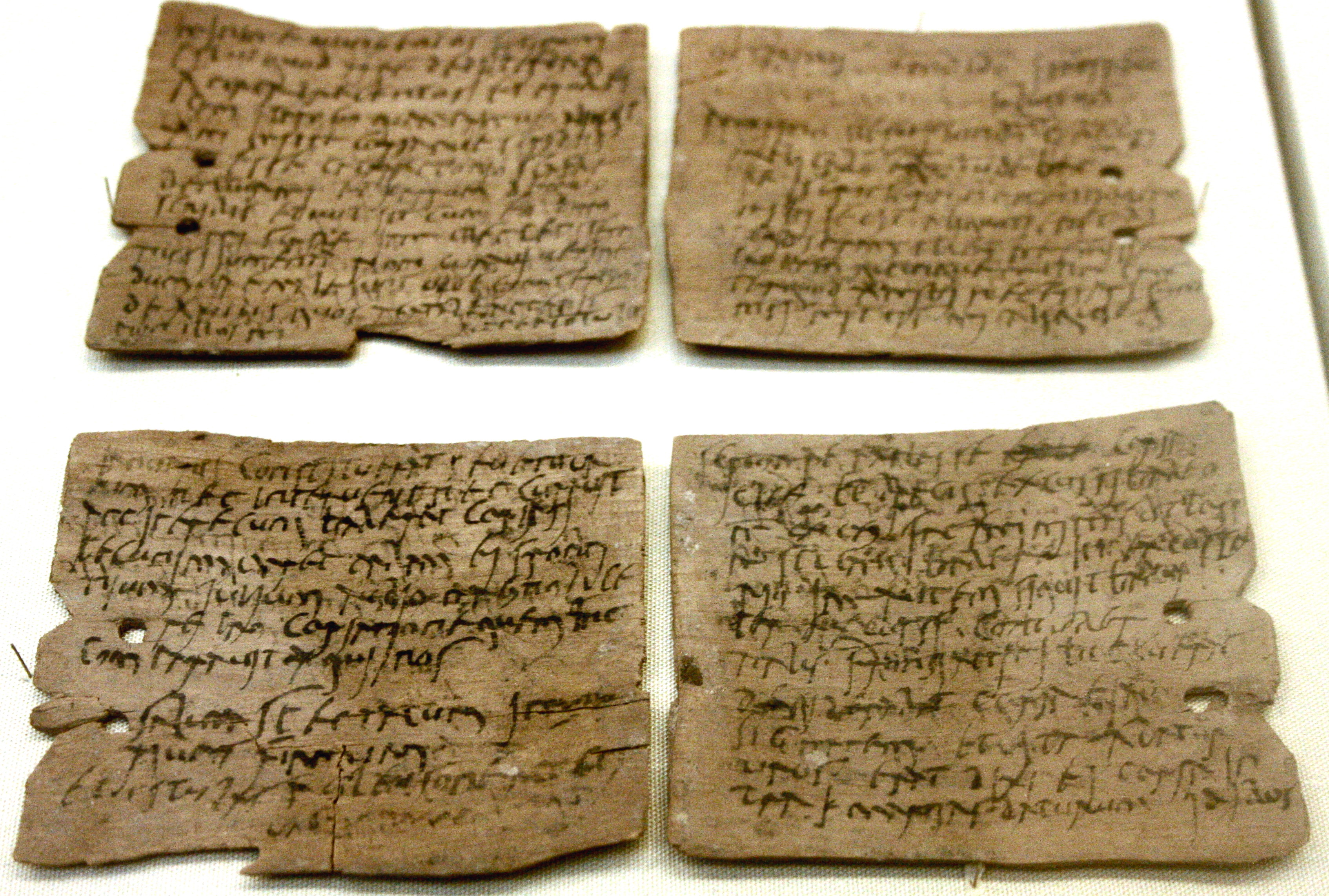 Roman writing tablet from the Vindolanda Roman fort of Hadrian's Wall, in Northumberland (1st-2nd century AD). Tablet 343: Letter from Octavius to Candidus concerning supplies of wheat, hides and sinews. British Museum (London)